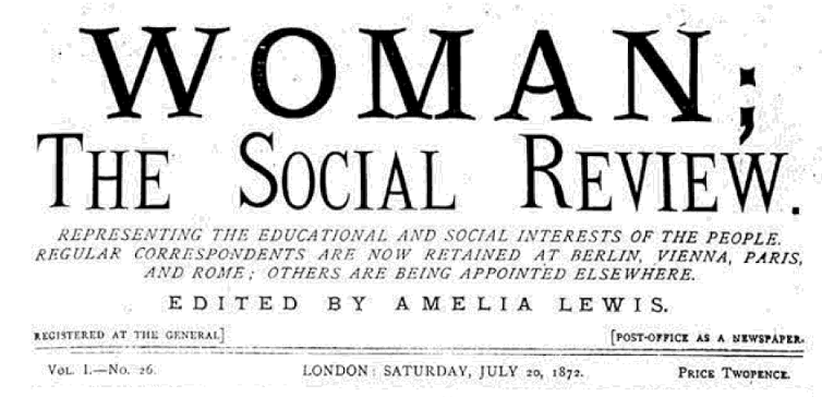 Woman-The Social Review edited by Amelia Lewis 1871 edition